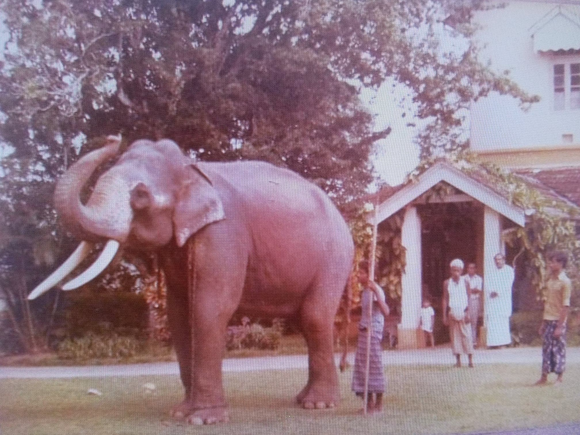 Nagungamuwe Raja saying good bye to his second owner. This picture was taken in 1978 at Herbert Wickramasingha's residence in Wawulugala Estate Horana